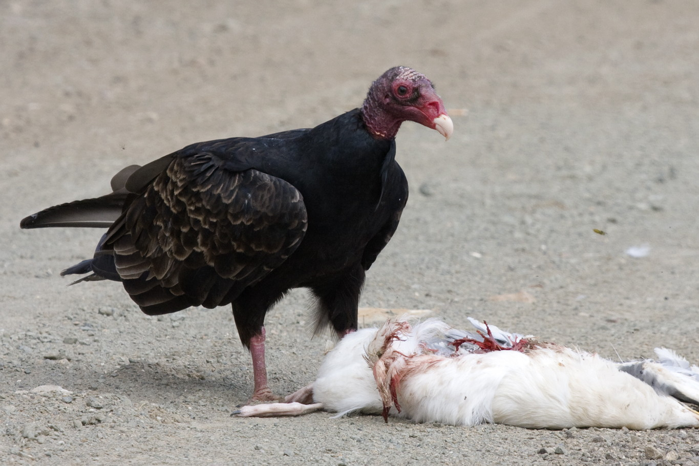 Turkey Vulture (Cathartes aura) at Morro Rock feeding on dead Western Gull